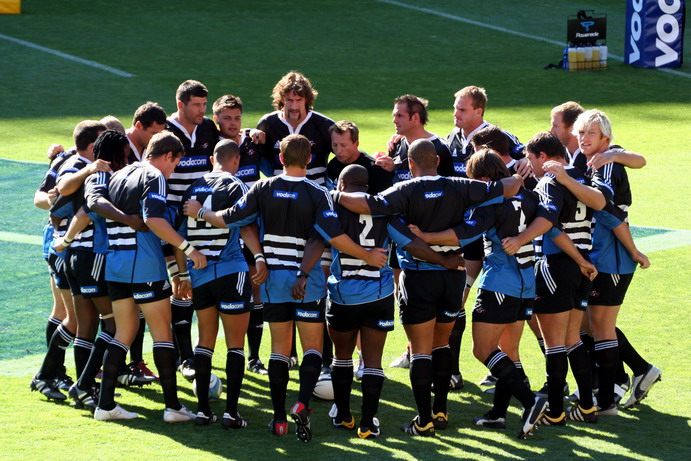 Rugby match at Newlands. Stormers (Super 14).